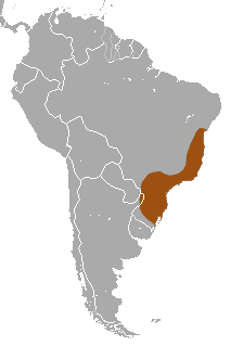 Brown Howler (Alouatta guariba) range